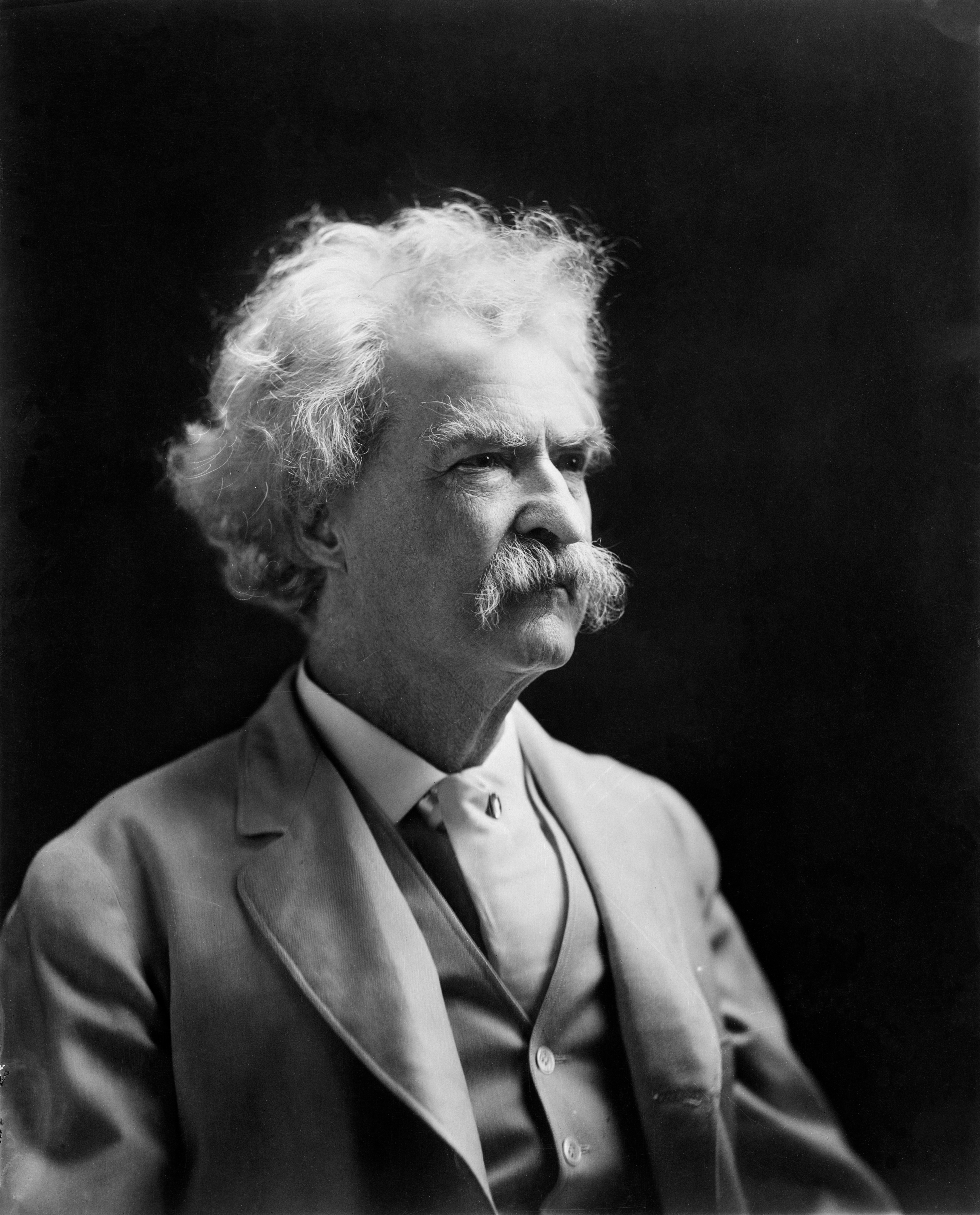 Mark Twain photo portrait.